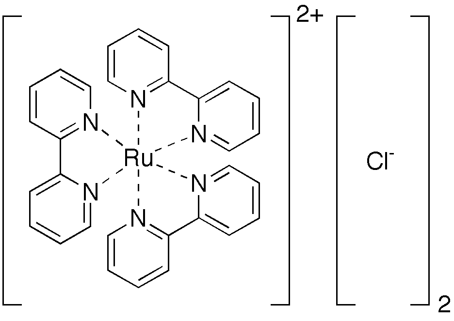 chemical structure of tris(bipyridine)ruthenium(II) chloride